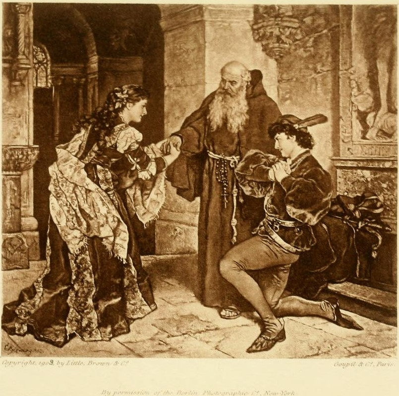 Becker, Friar Laurence's Cell; photo by Goupil